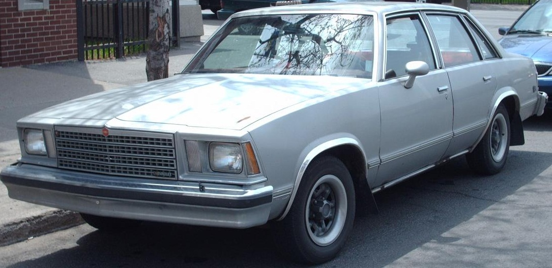 1979 Chevrolet Malibu Classic photographed in Montreal, Quebec, Canada.